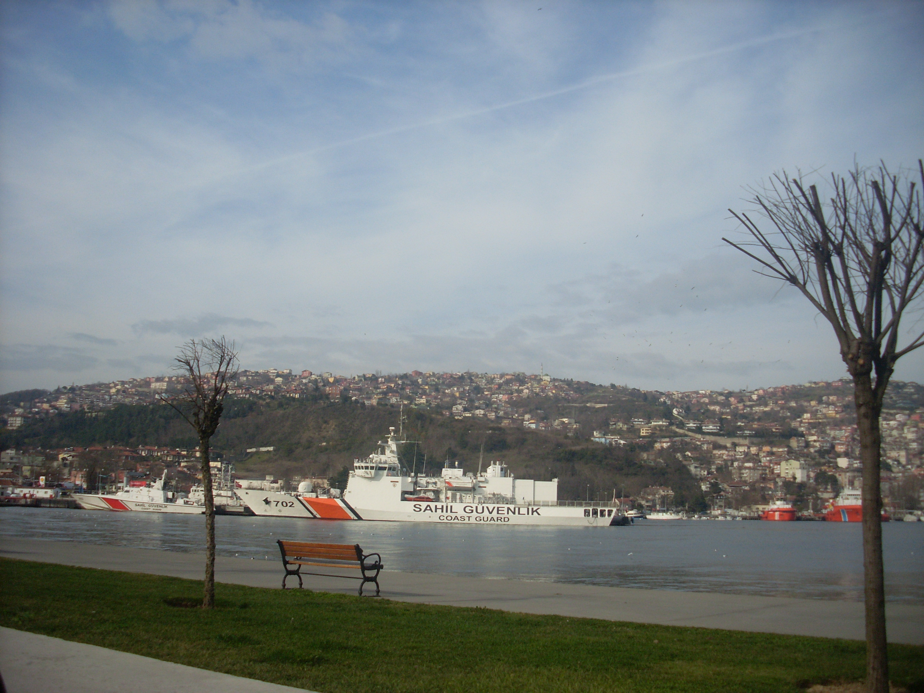 Turkish Coast Guard, İstanbul Büyükdere Feb 2014